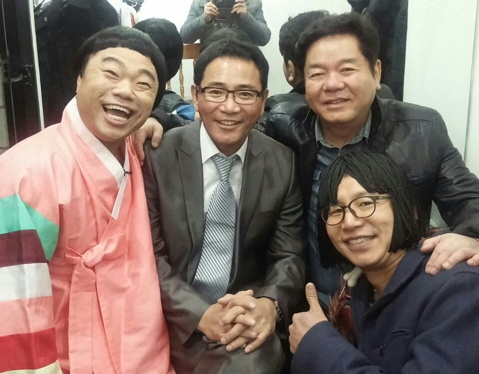 심형래, 이봉원, 옥동자, 심현섭, 황기순이 '나는 가수다'를 패러디한 '나는 개그맨이다'가 화제가 되었다.